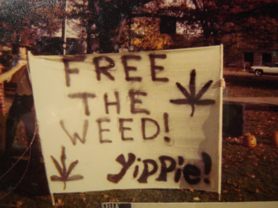 Banner at Halloween Yippie Smoke-In, Columbus, Ohio, 1978